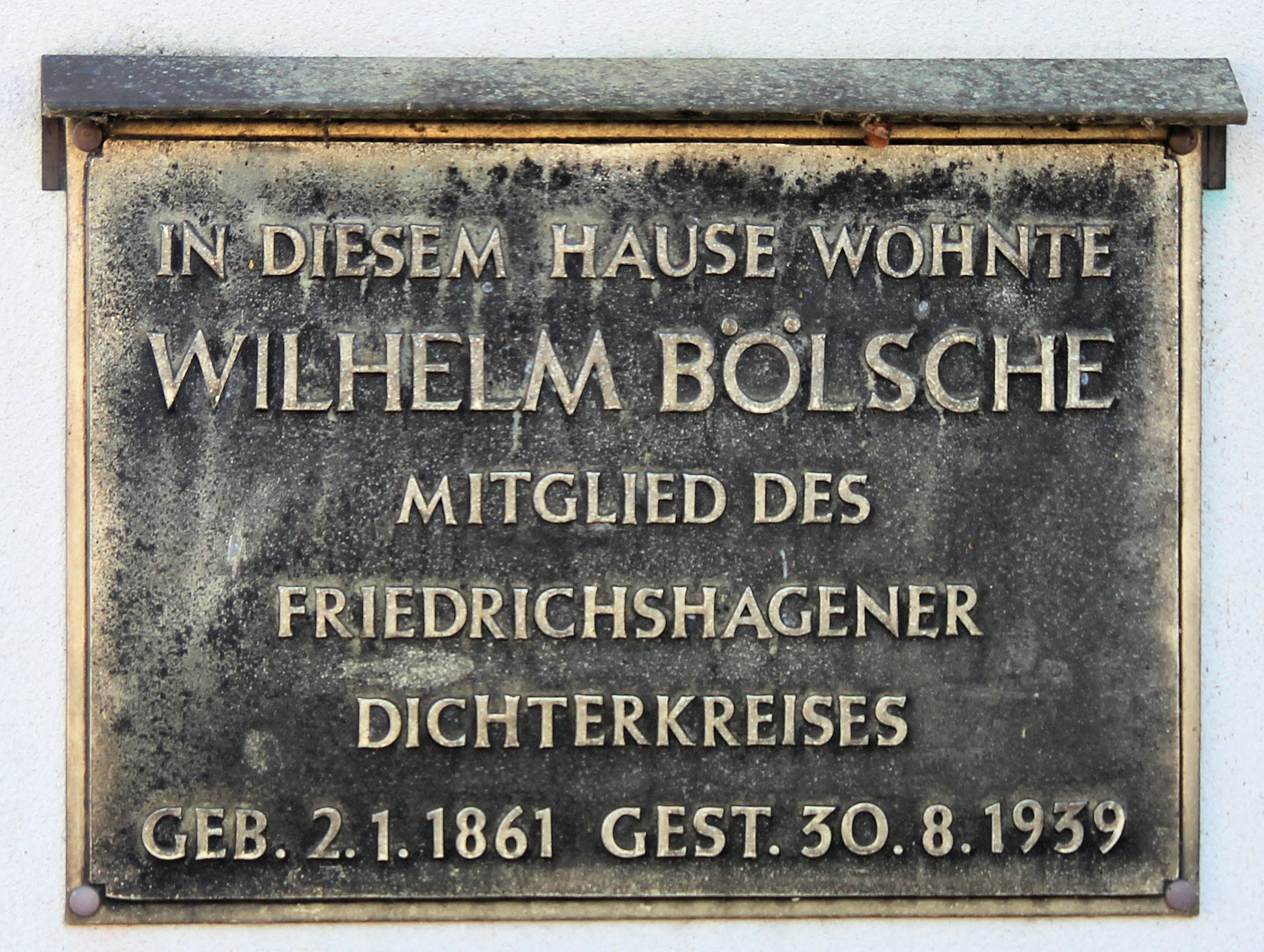 Memorial plaque, Wilhelm Bölsche, Müggelseedamm 254, Berlin-Friedrichshagen, Germany Koordinate:52°26′51″N 13°38′9″E / 52.4475°N 13.63583°E